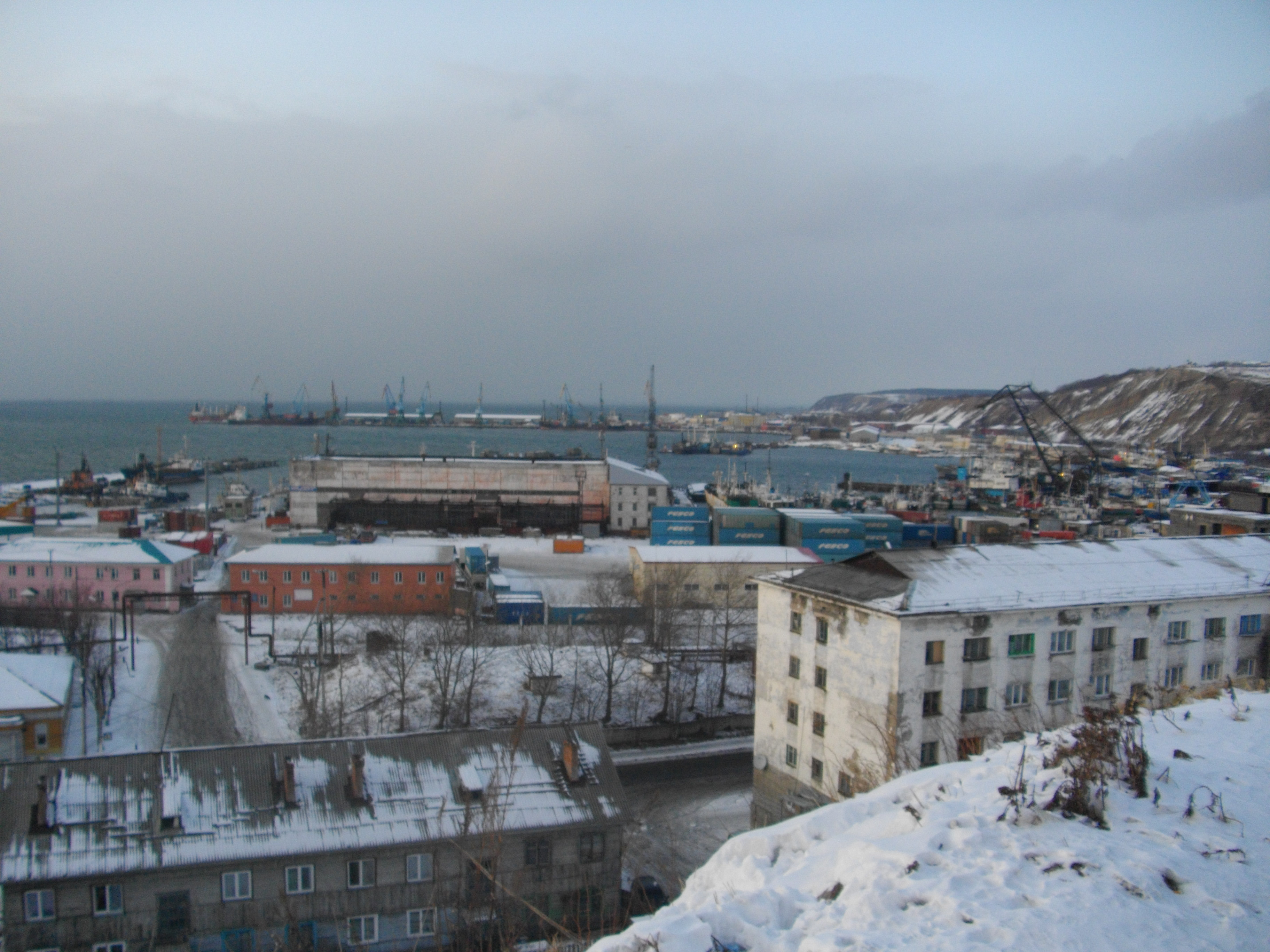 Korsakov (town in Sahalin oblast, Russia)